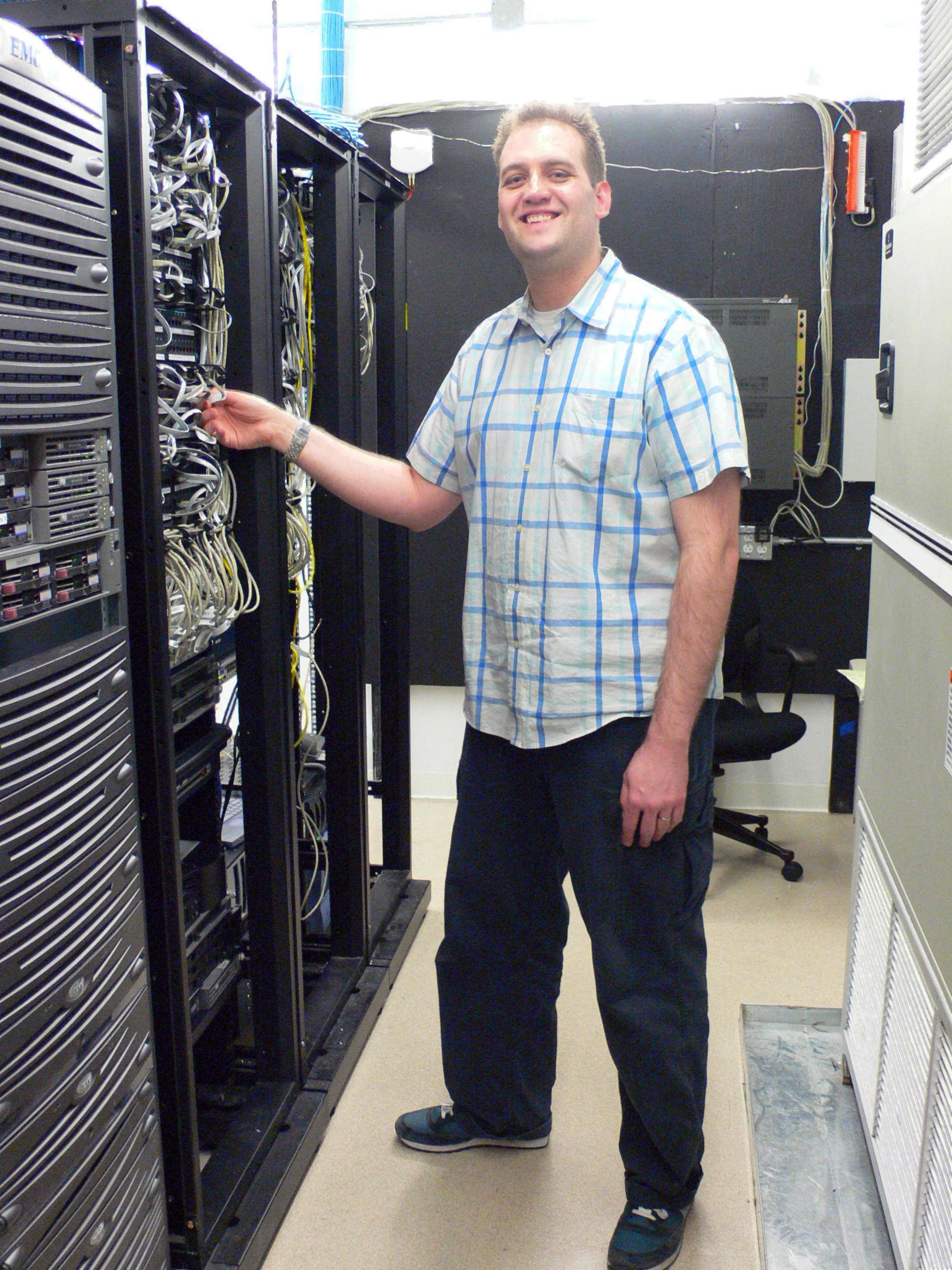 A professional system administrator works at a server rack in a datacenter.